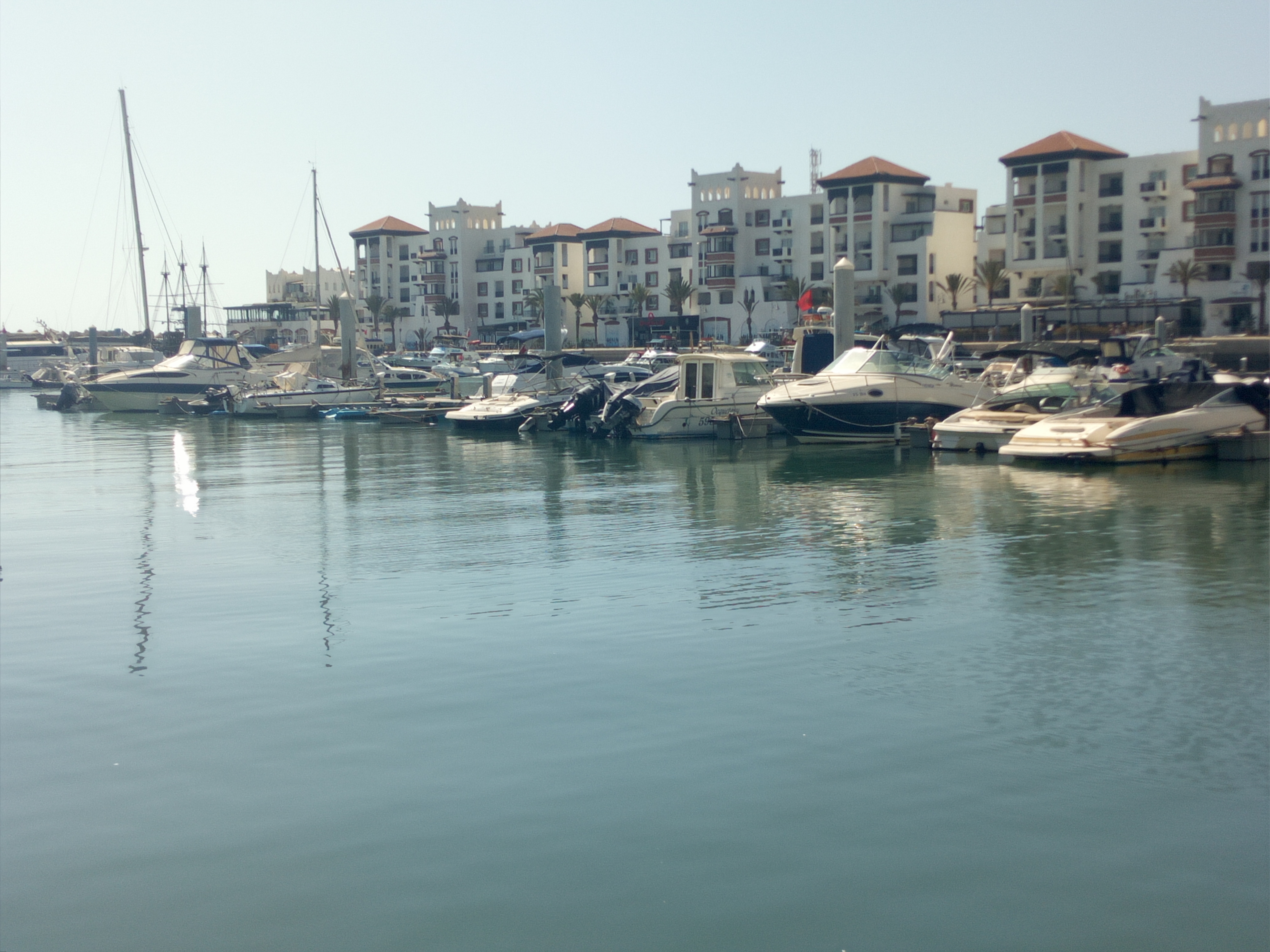 Cruise ships in Marina Agadir by AmlouMed This is an image with the theme "Africa on the Move or Transport" from: Morocco